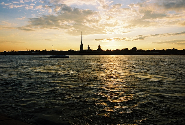 Silhouette of Peter and Paul Fortress in Saint Petersburg.